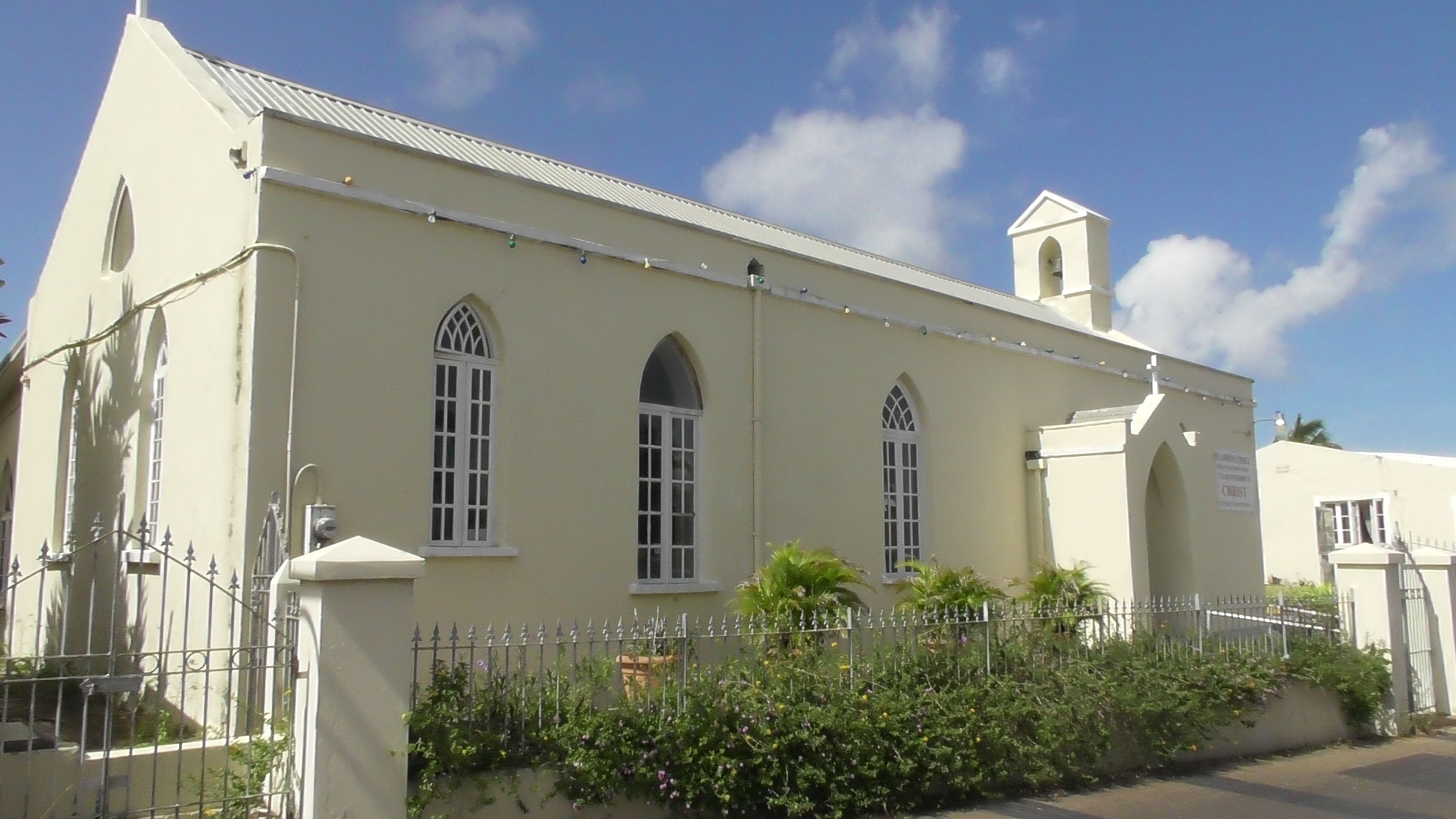 St. Lawrence Church, St. Lawrence Gap, Barbados. Taken on the morning of Friday the 9th of September 2016 (the time on the metadata is set at British Summer Time, not local time).